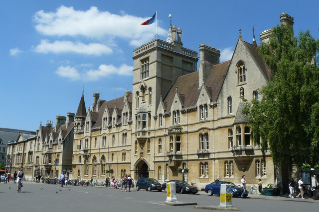 Oxford - Balliol College One of my favourite views, across the appropriately-named Broad Street.